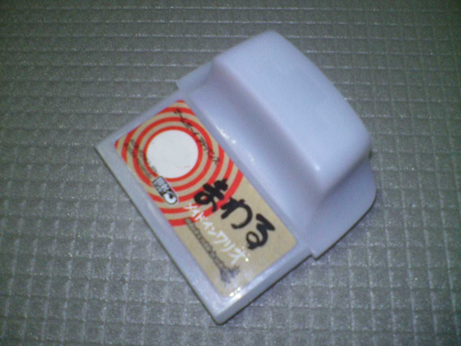 Game Boy Advance Cartridge Sample : WarioWare Twisted!(Japanese Version)